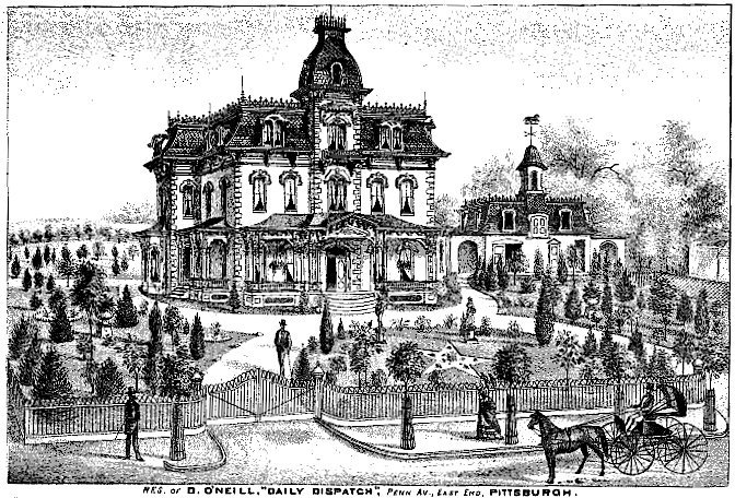 Etching of the house built by Daniel O'Neill, owner and editor of the Pittsburgh Dispatch newspaper.